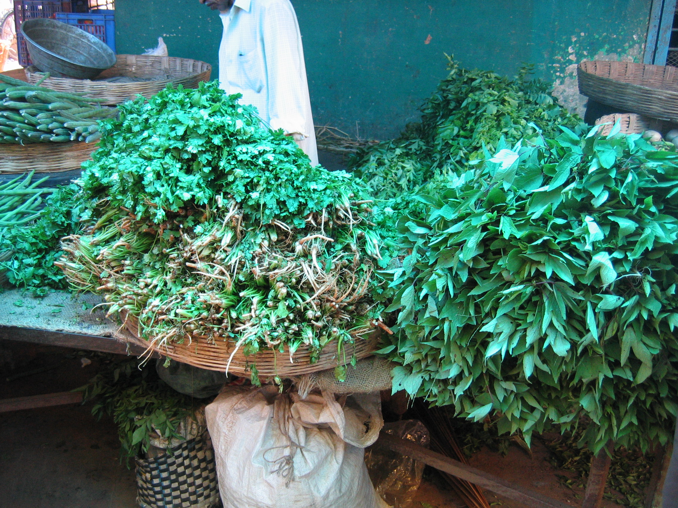 Gongura being sold at a vegetable market in Guntur City, India.